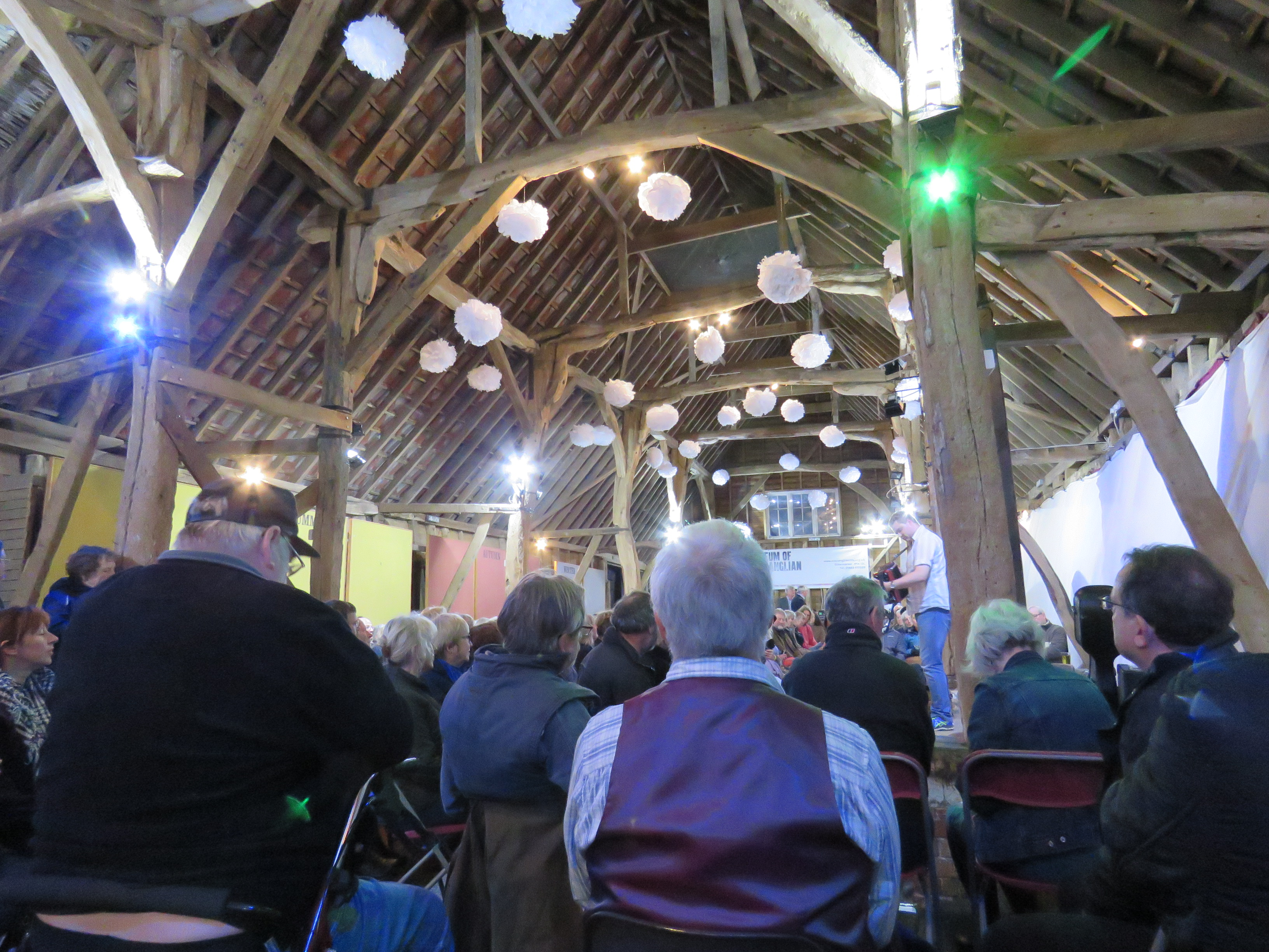 Abbey Farm Tithe Barn, Museum of East Anglian Life, Stowmarket, Suffolk